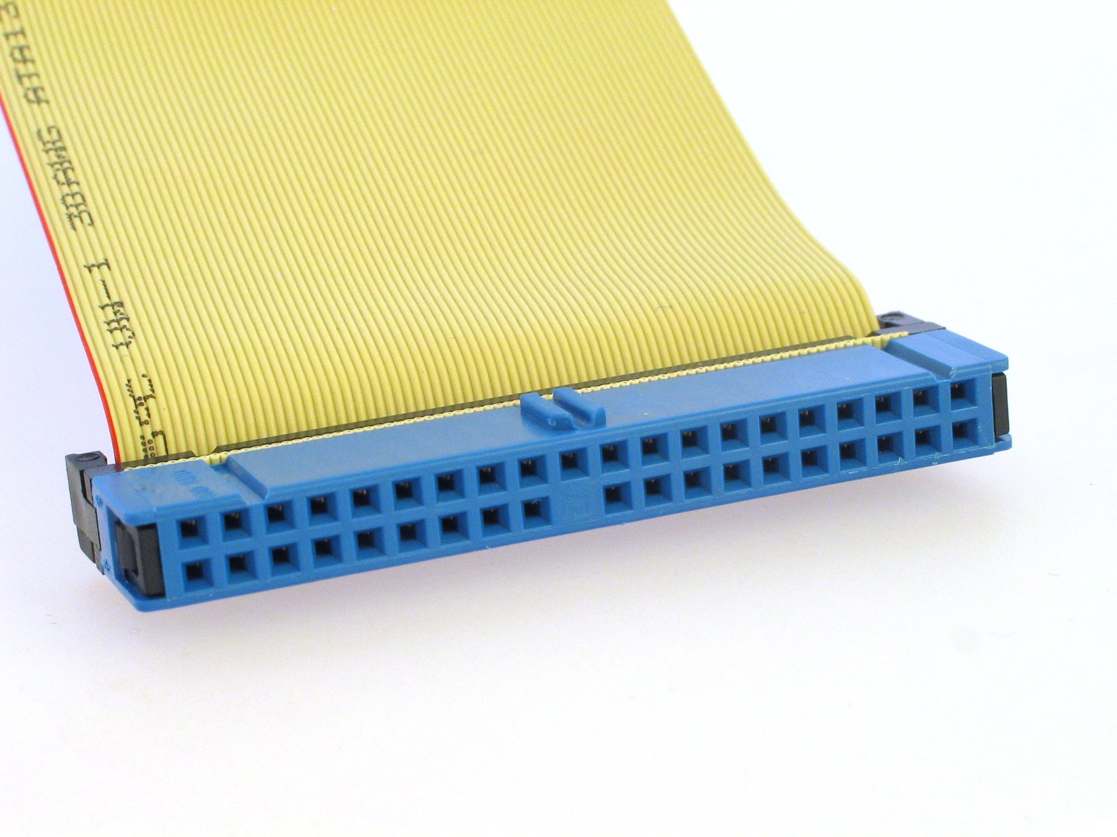 ATA connector, photo taken in Sweden